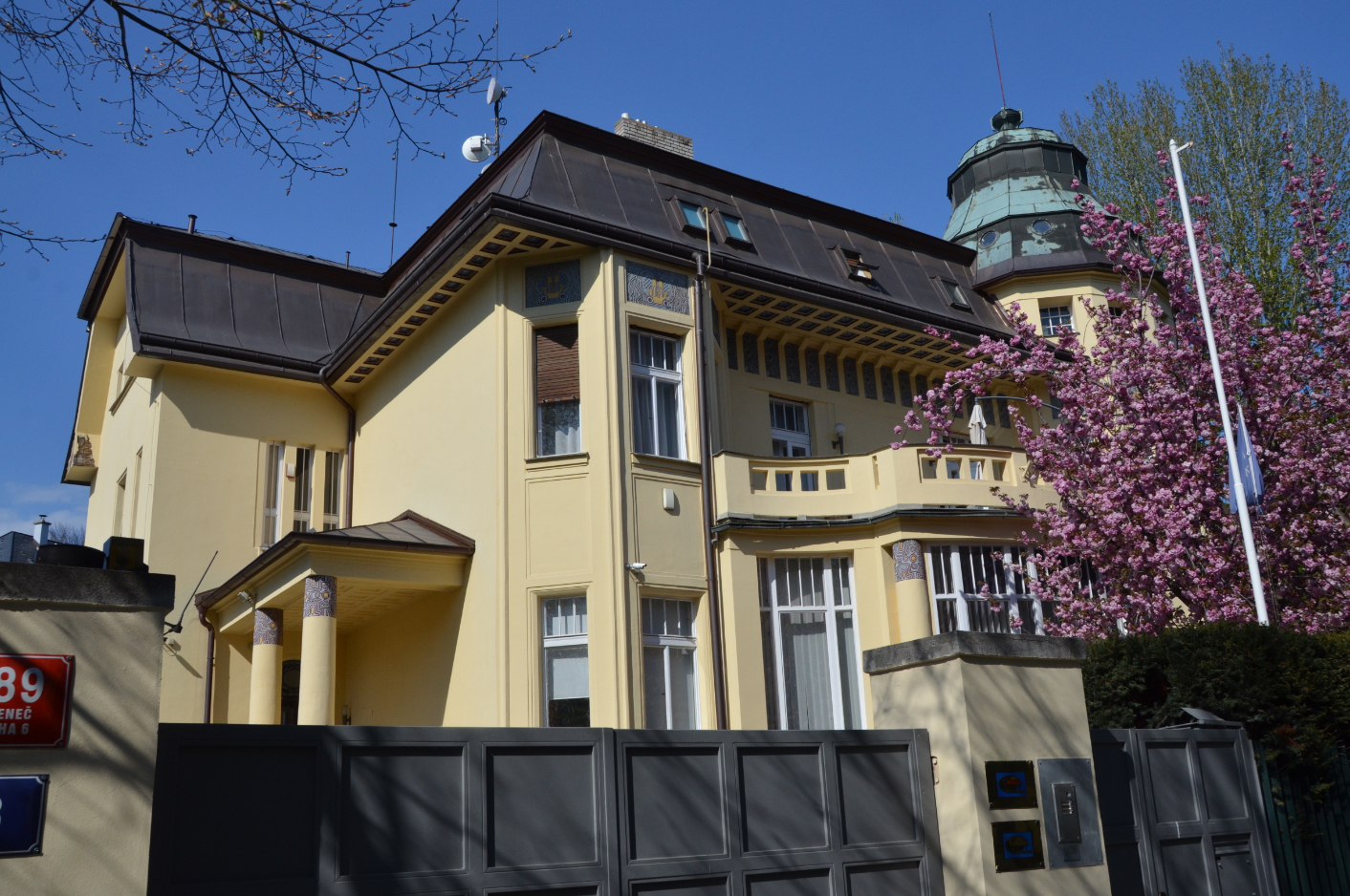 Vila Kraus, Na Zátorce 3/289, Praha 6–Bubeneč, geometrical Art Nouveau